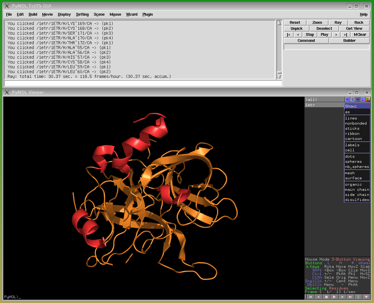 Screenshot of PyMOL